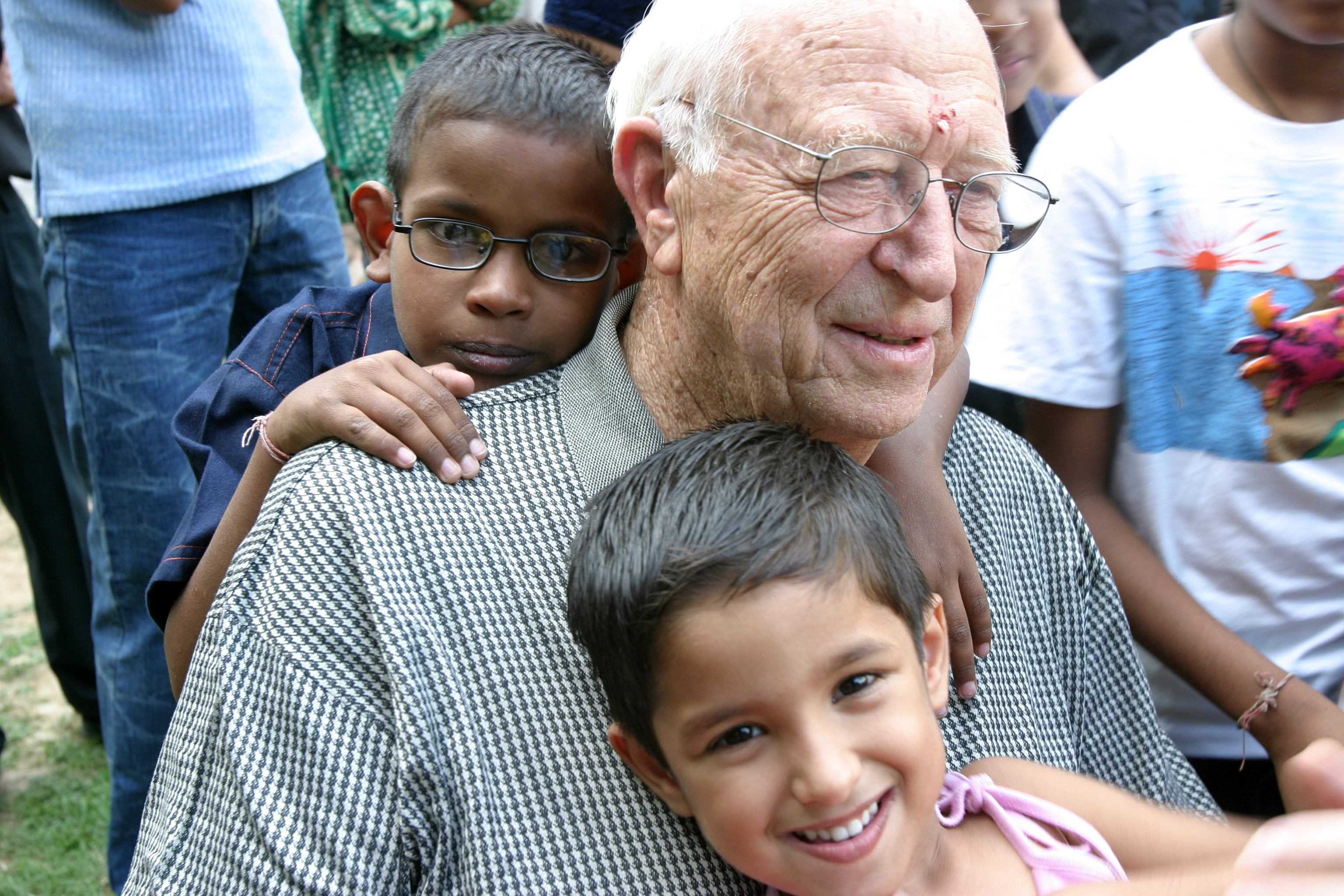 William H. Gates Jr., visits the Naz Foundation's care centre for HIV Positive children, The Naz Foundation (India) Trust (NI) is a New Delhi based NGO working on HIV/AIDS and Sexual Health since 1994.